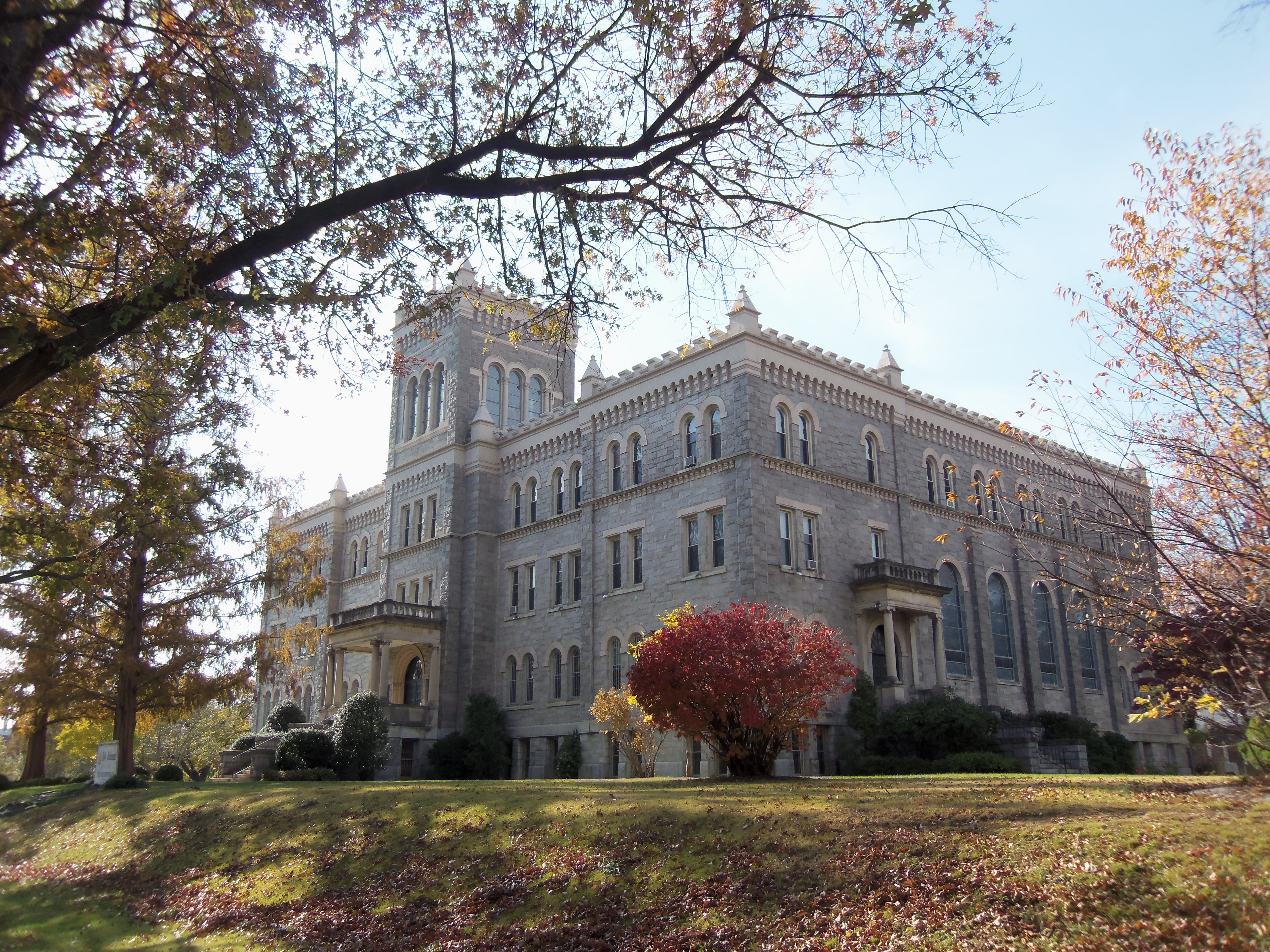 Holy Redeemer College is a residence for members of the Congregation of the Most Holy Redeemer (Redemptorists) in Washington, DC.